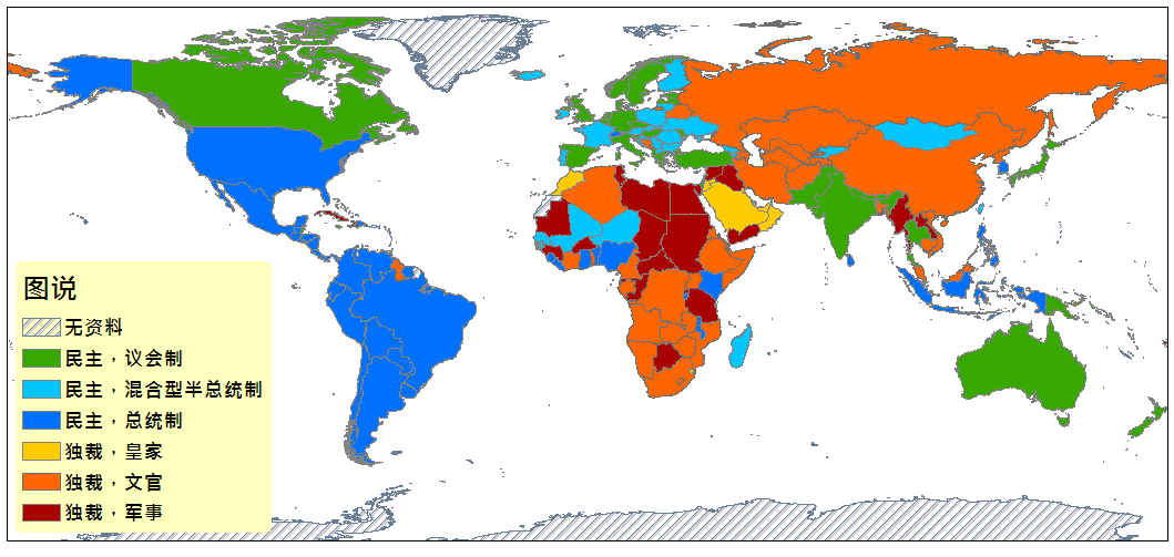 世界各政體的分類，民主的再細分成：议会制、混合型（半总统制）、总统制；独裁的再細分成：皇家、国家非军事、军事。 引用來源：Cheibub, José Antonio, Jennifer Gandhi, and James Raymond Vreeland. 2010. “Democracy and Dictatorship Revisited.” Public Choice, vol. 143, no. 2-1, pp. 67-101. 原資料集包括202國家從1946或該國政體獨立的年開始到2008年 此圖僅呈現2008年資料，由zh:User:hanteng繪製